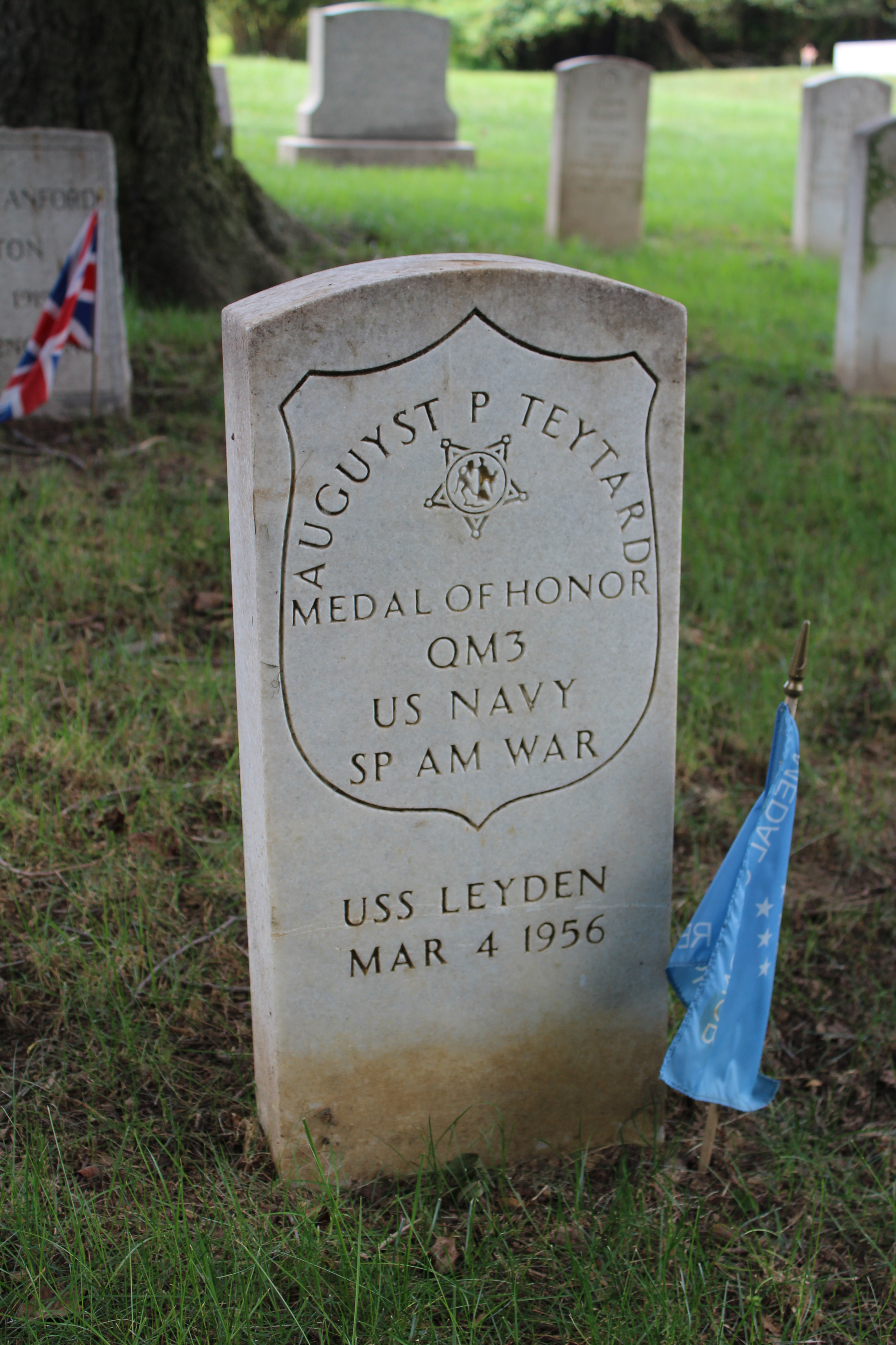 Auguyst P Teytard headstone in Mount Moriah Cemetery Naval Plot. Photo taken August 2019.